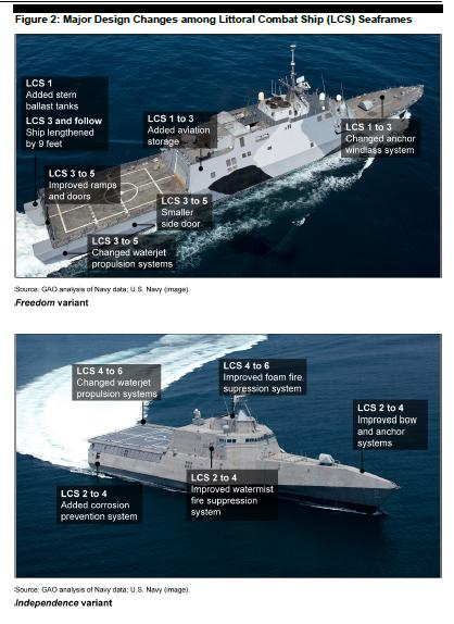 Figure 2: Major Design Changes among Littoral Combat Ship (LCS) Seaframes This image is excerpted from a U.S. GAO report: "NAVY SHIPBUILDING: Significant Investments in the Littoral Combat Ship Continue Amid Substantial Unknowns about Capabilities, Use, and Cost"